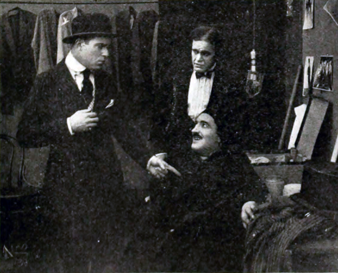 Illustration of an article in The Moving Picture World from the American film How Stars Are Made (1916) with Raymond Griffith (seated).